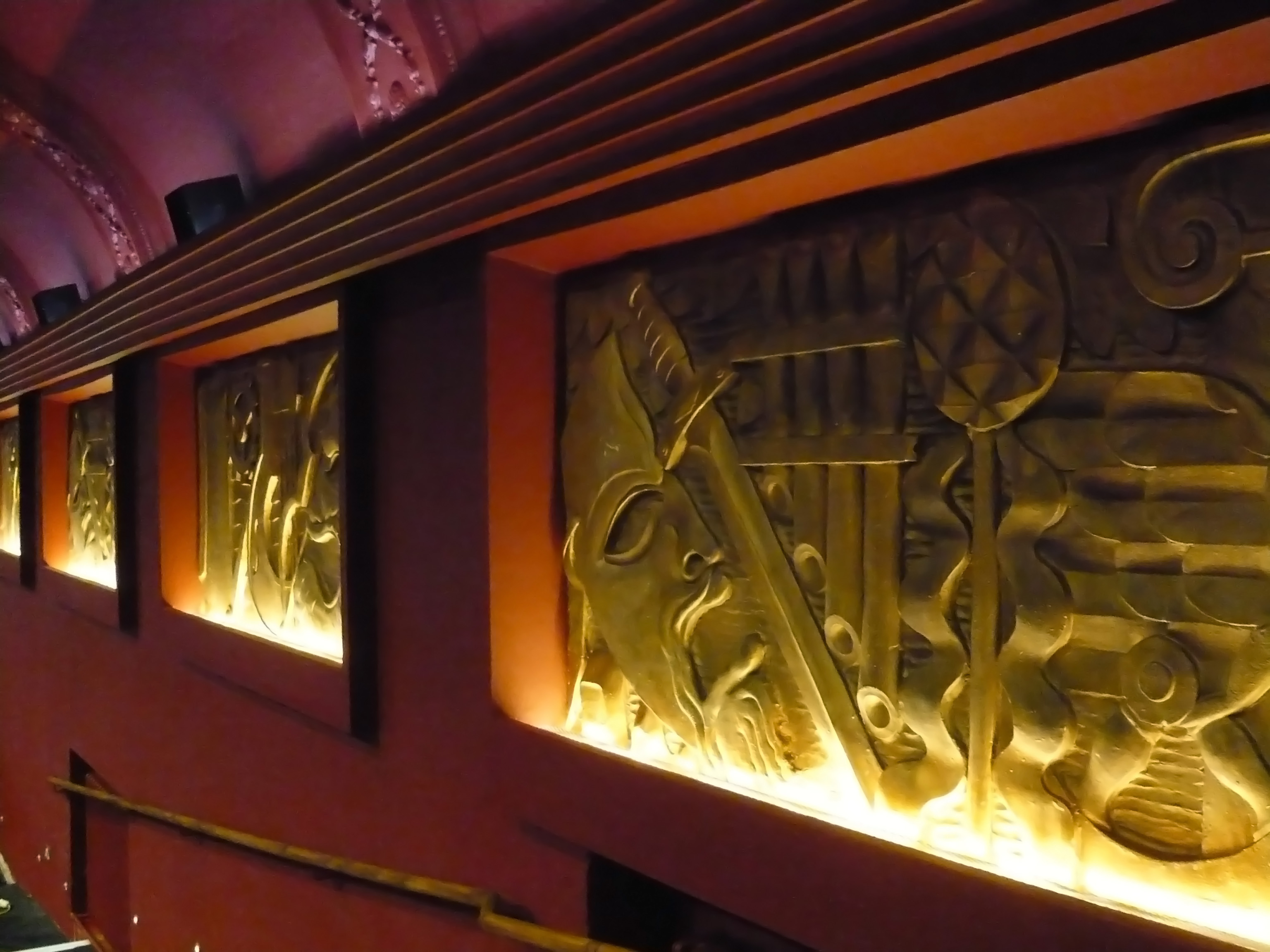 Restored Art Deco panels in the auditorium.